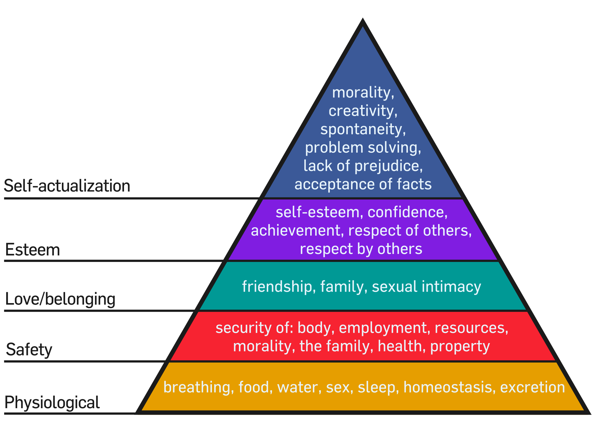 Maslow's Hierarchy of Needs in pyramid form with explanations and examples.